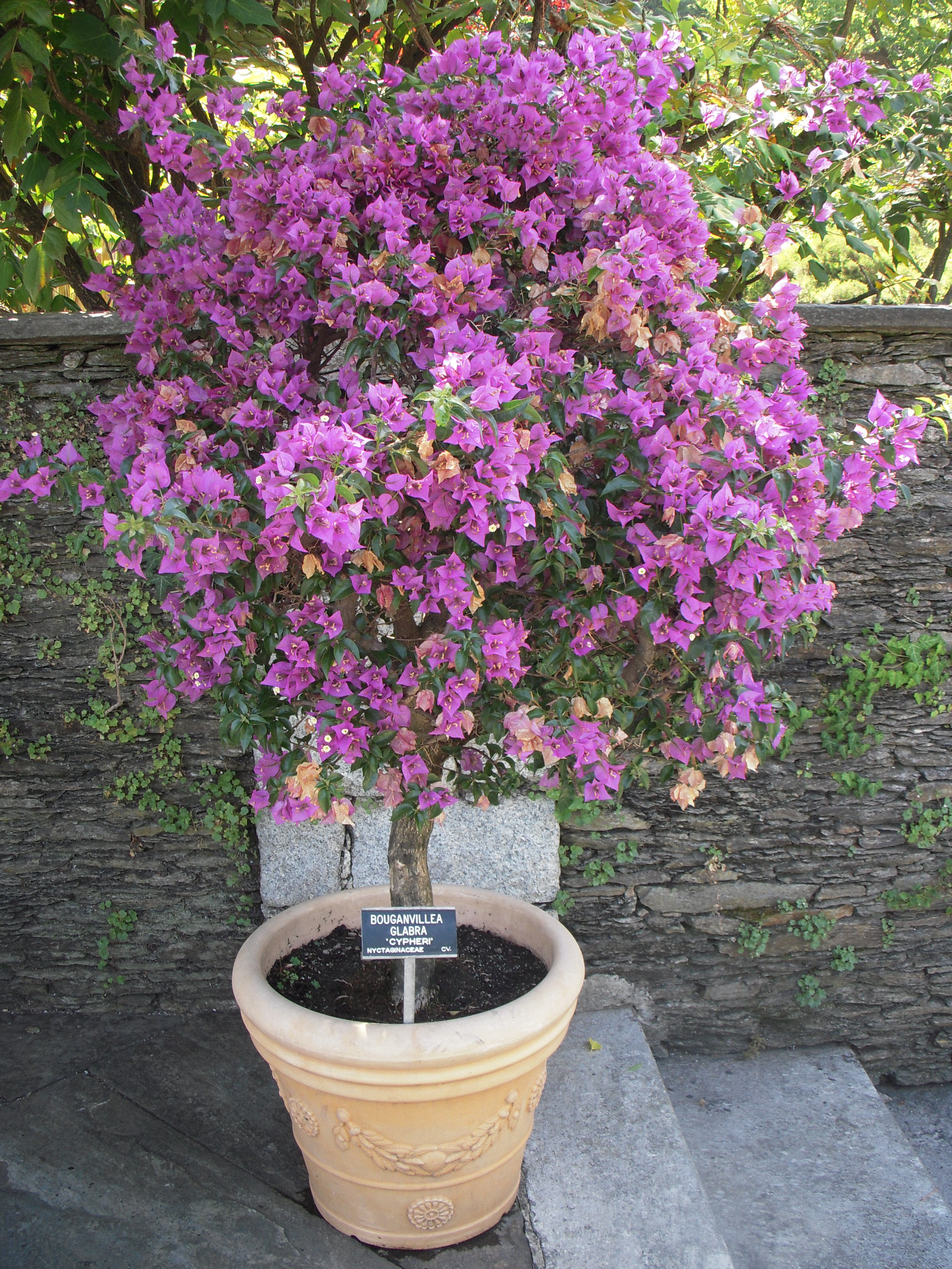 Bougainvillea glabra in a pot, Villa Taranto, Verbania. July 2009.